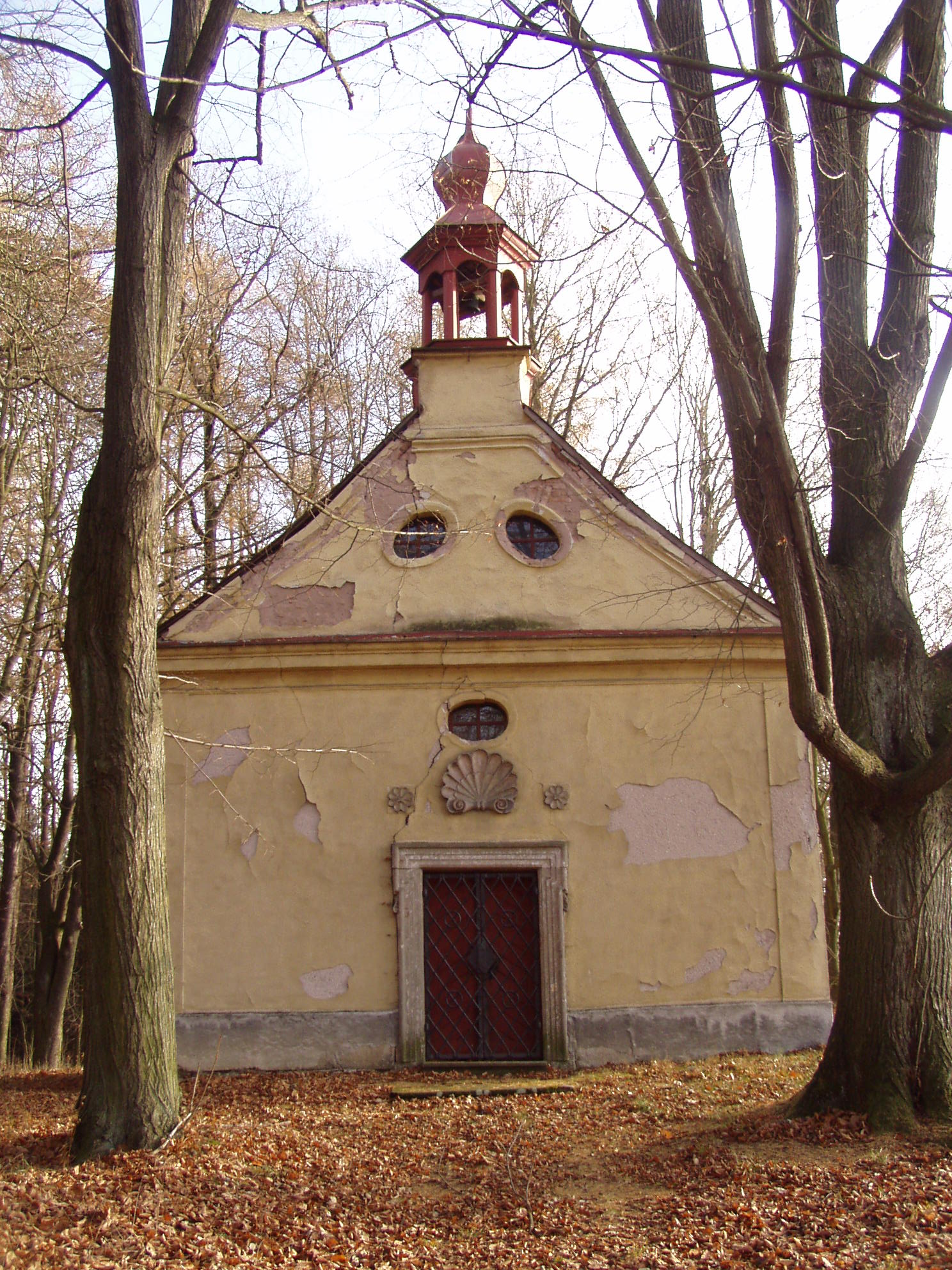 Zlíč - Chapel of the Blessed Virgin Mary